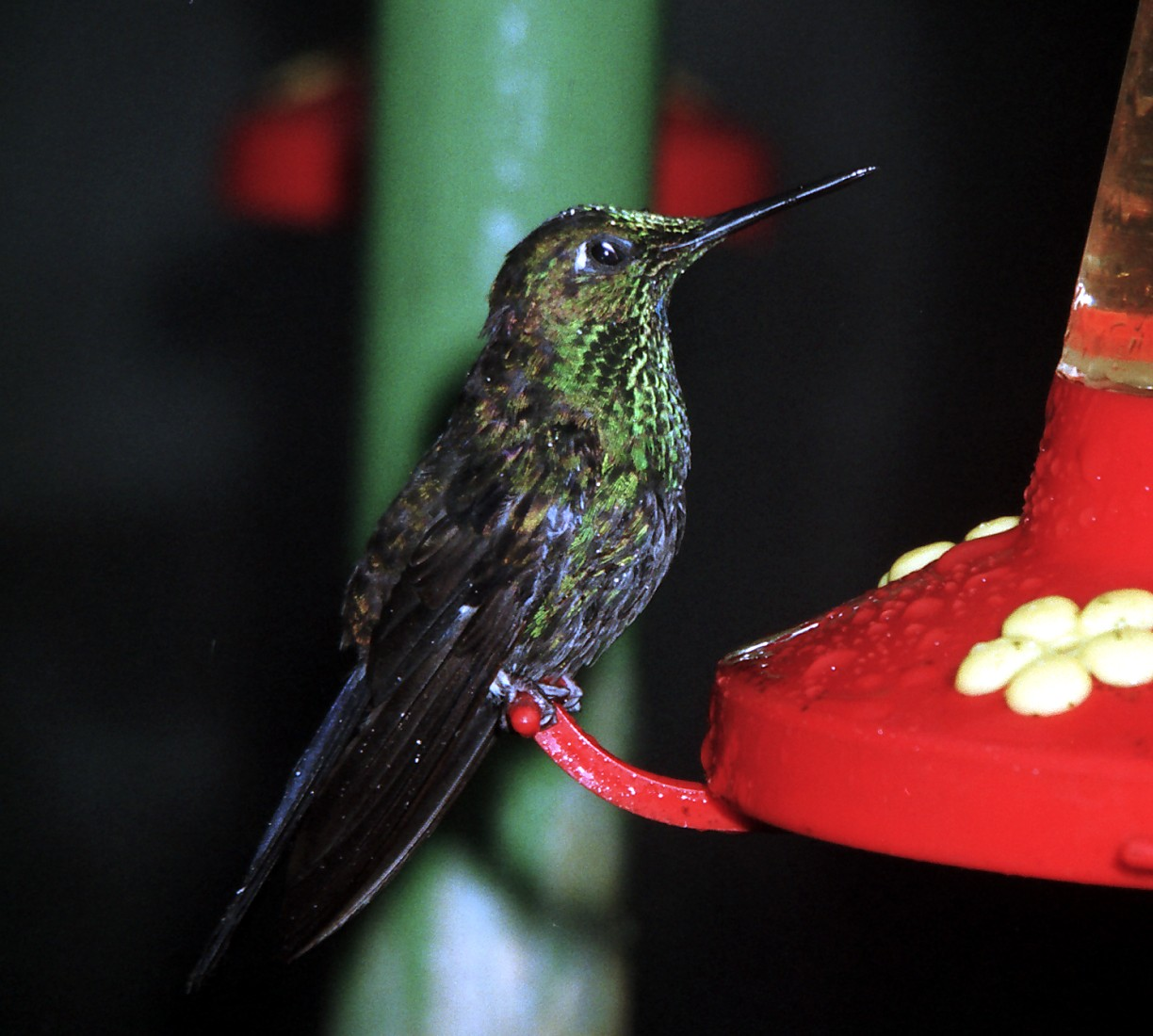 Green-crowned brilliant